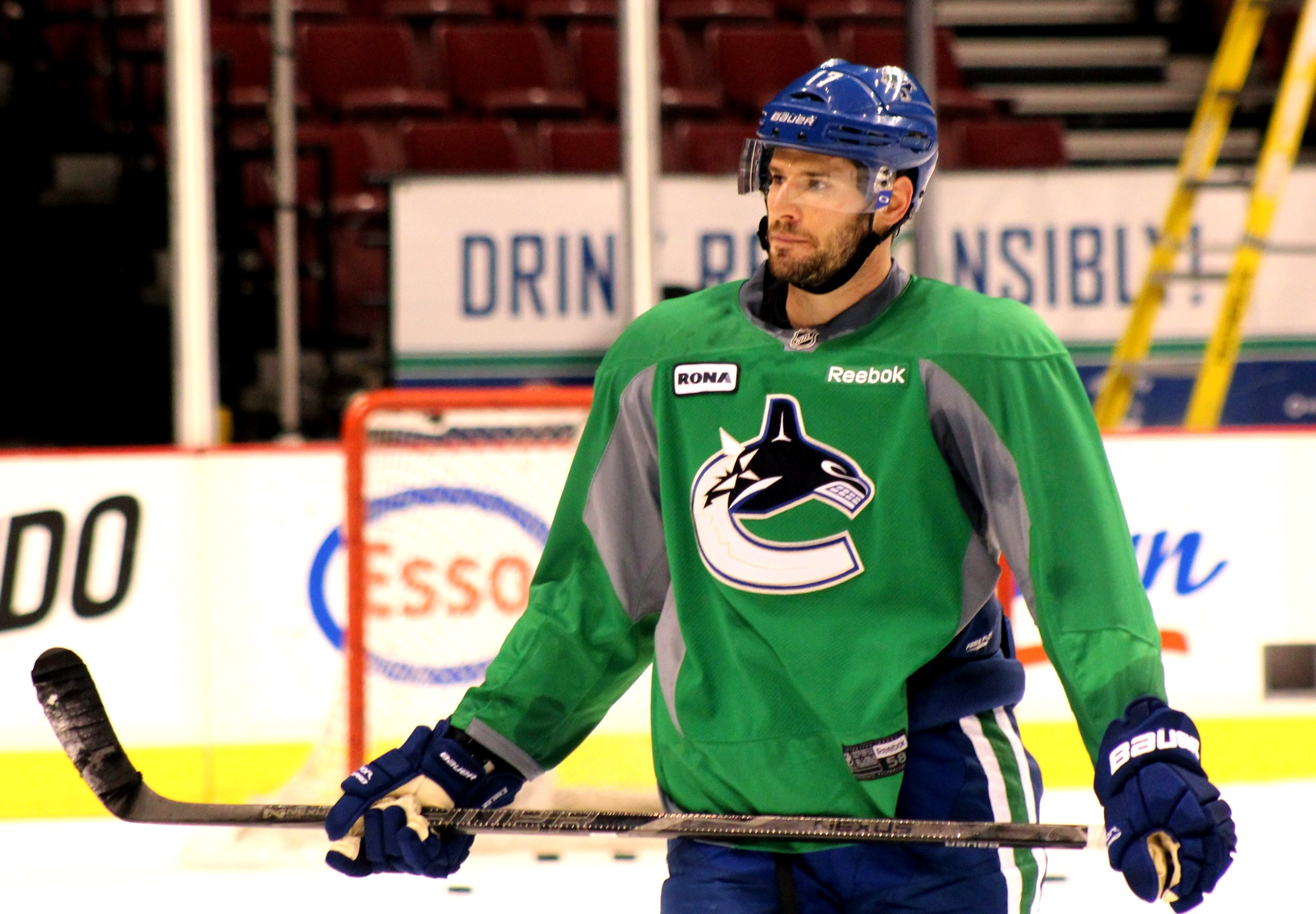 Vancouver Canucks forward Ryan Kesler during a practice on March 9, 2012.